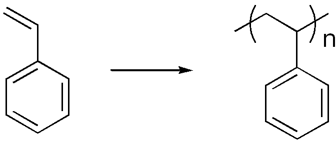 diagram showing the polymerizatino of styrene